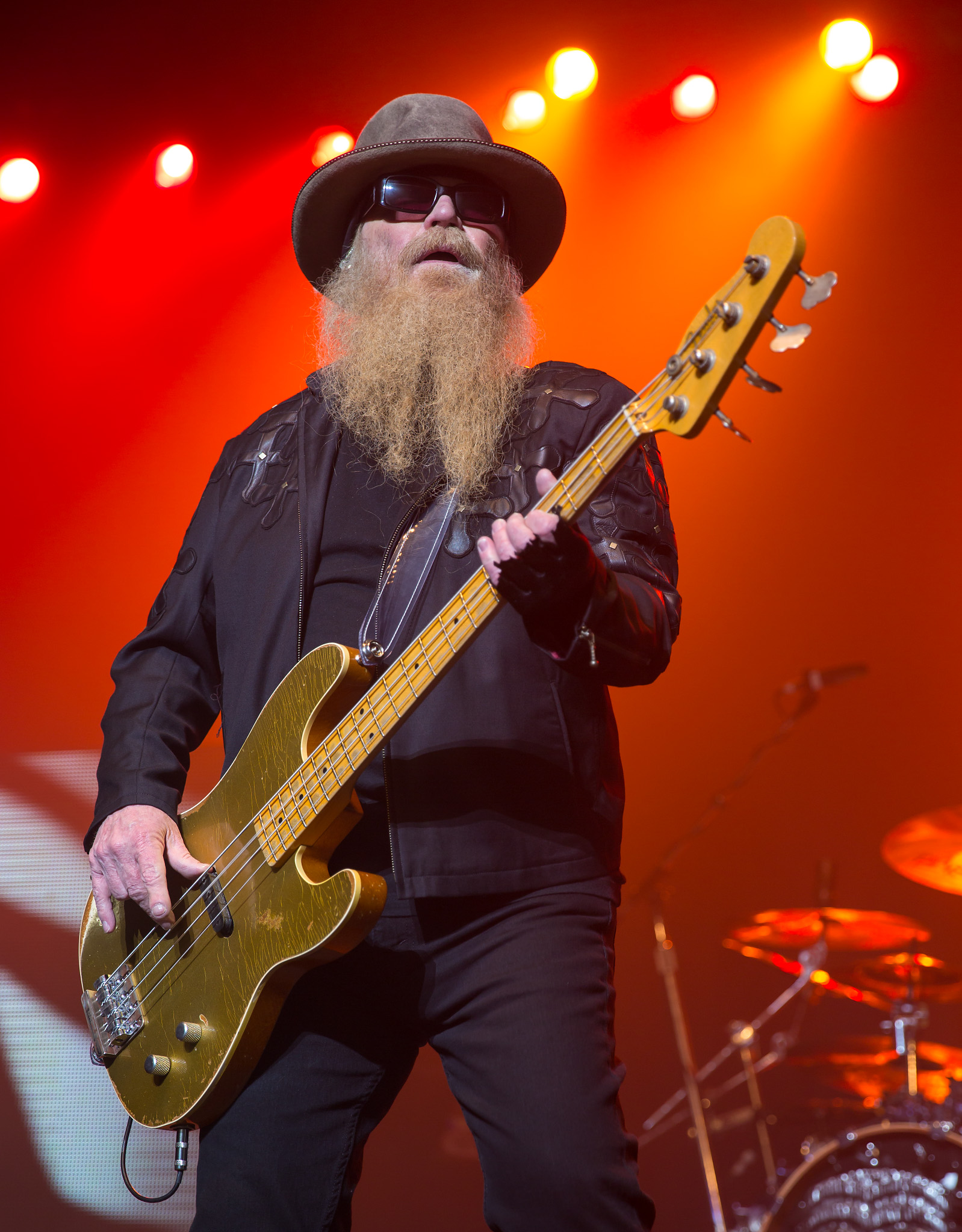 Dusty Hill of ZZ Top performing in San Antonio, Texas 2015-01-18.